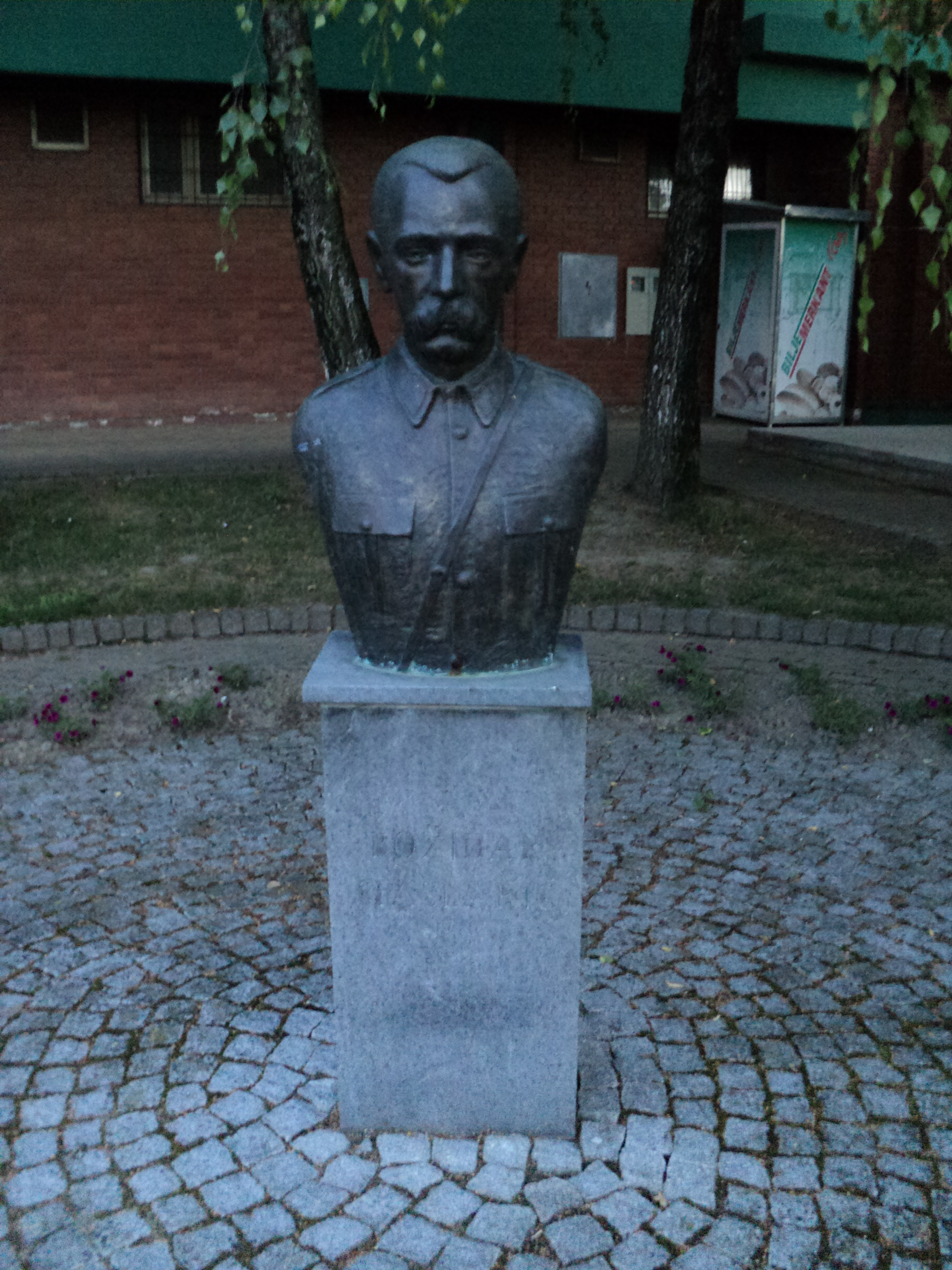 Bust of Božidar Maslarić next to his house of birth in Dalj.